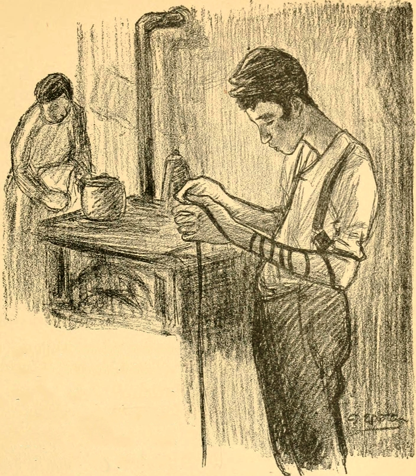 From :The spirit of the Ghetto; studies of the Jewish quarter in New York